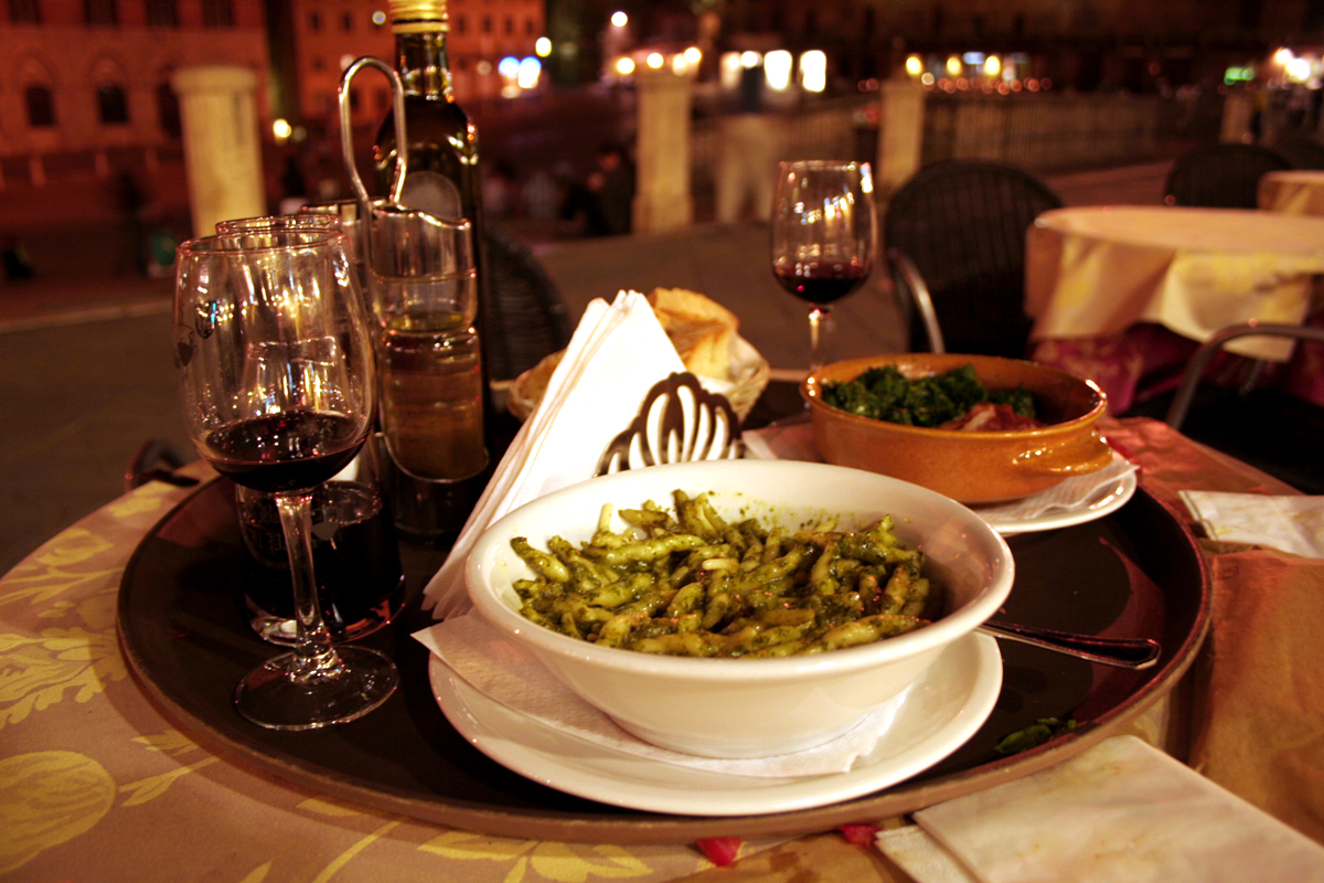 Troffiette with genovese pesto.